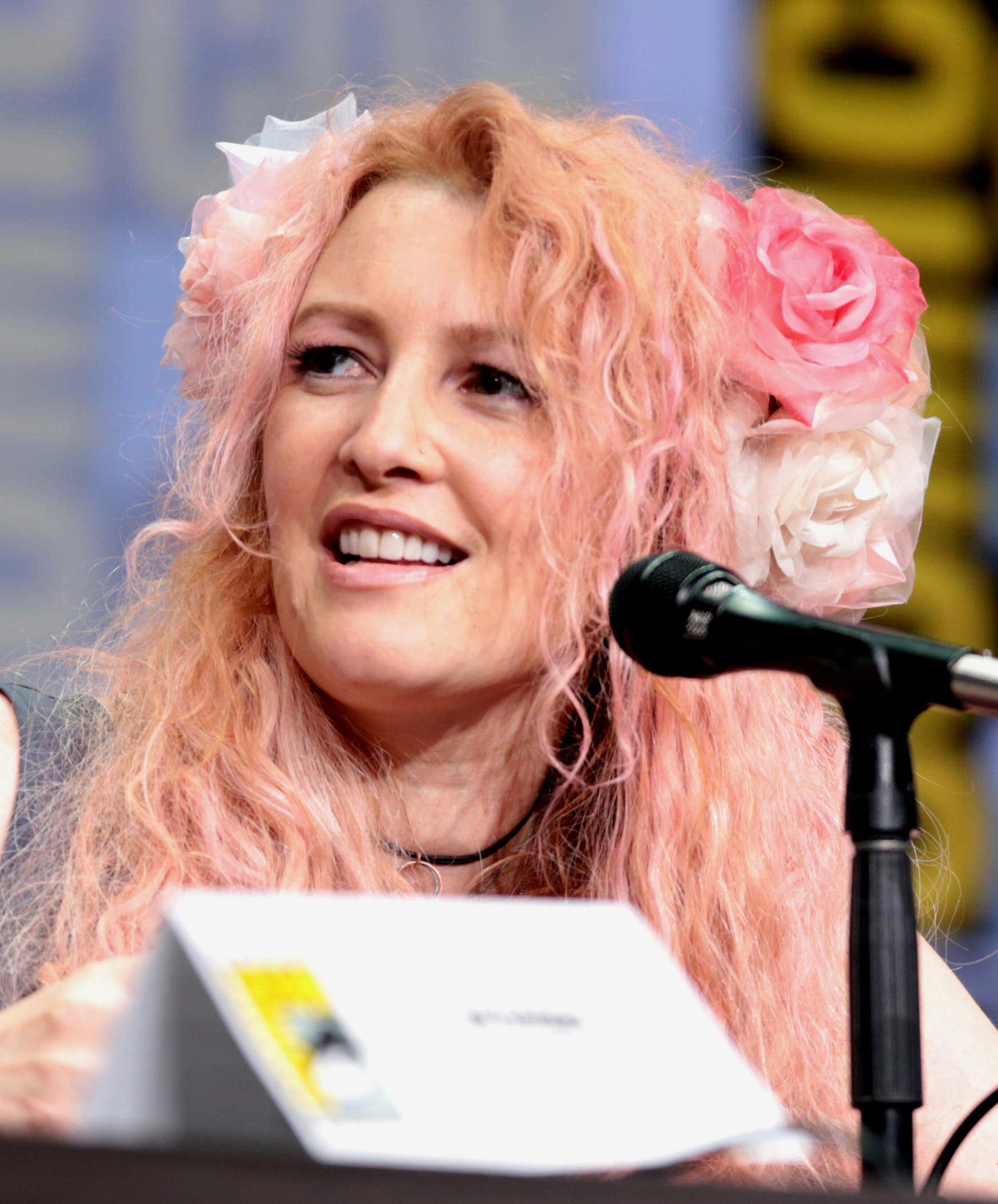 Jane Goldman speaking at the 2017 San Diego Comic-Con International in San Diego, California.